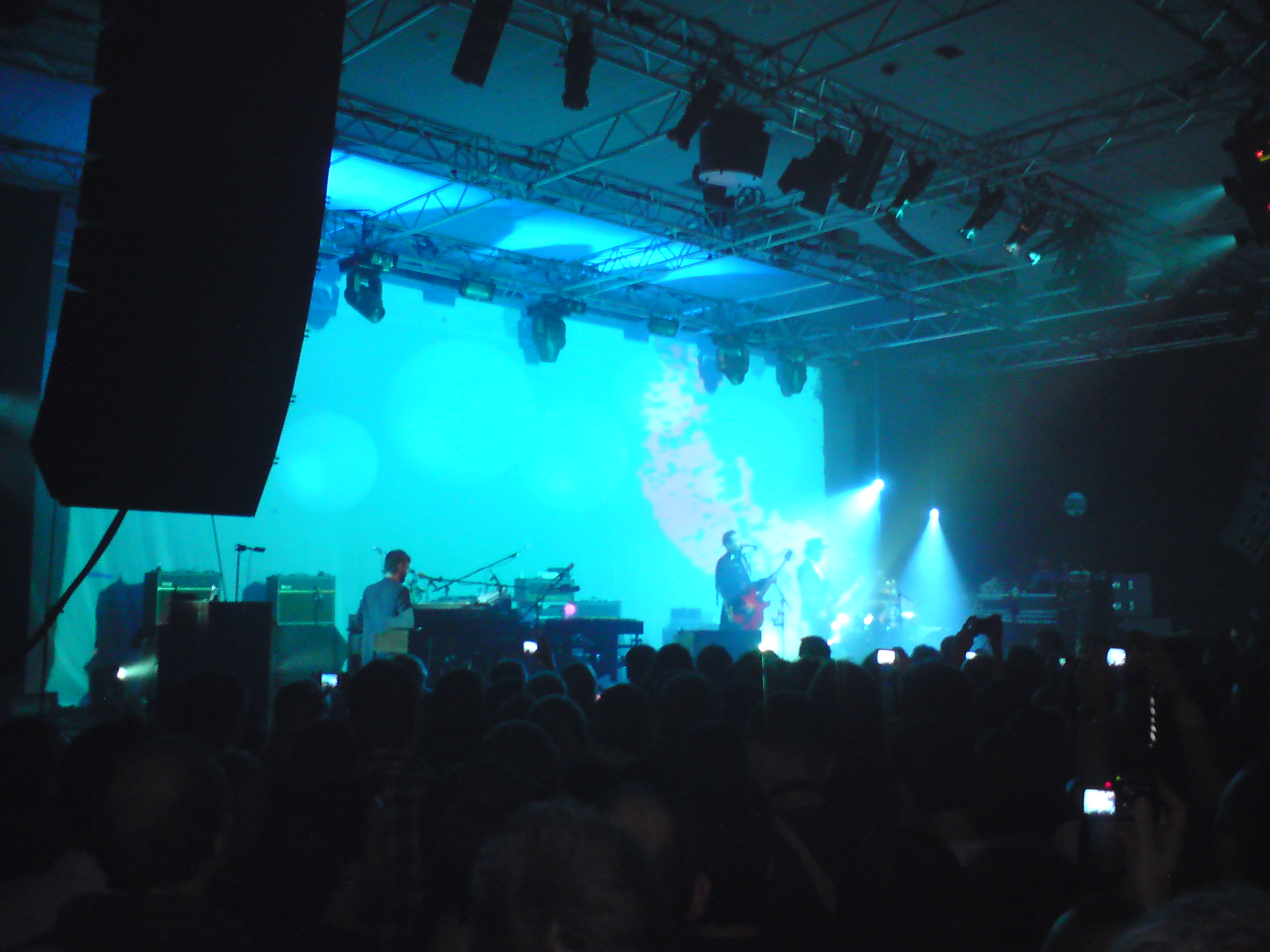 Picture of Sigur Ros at Bournemouth